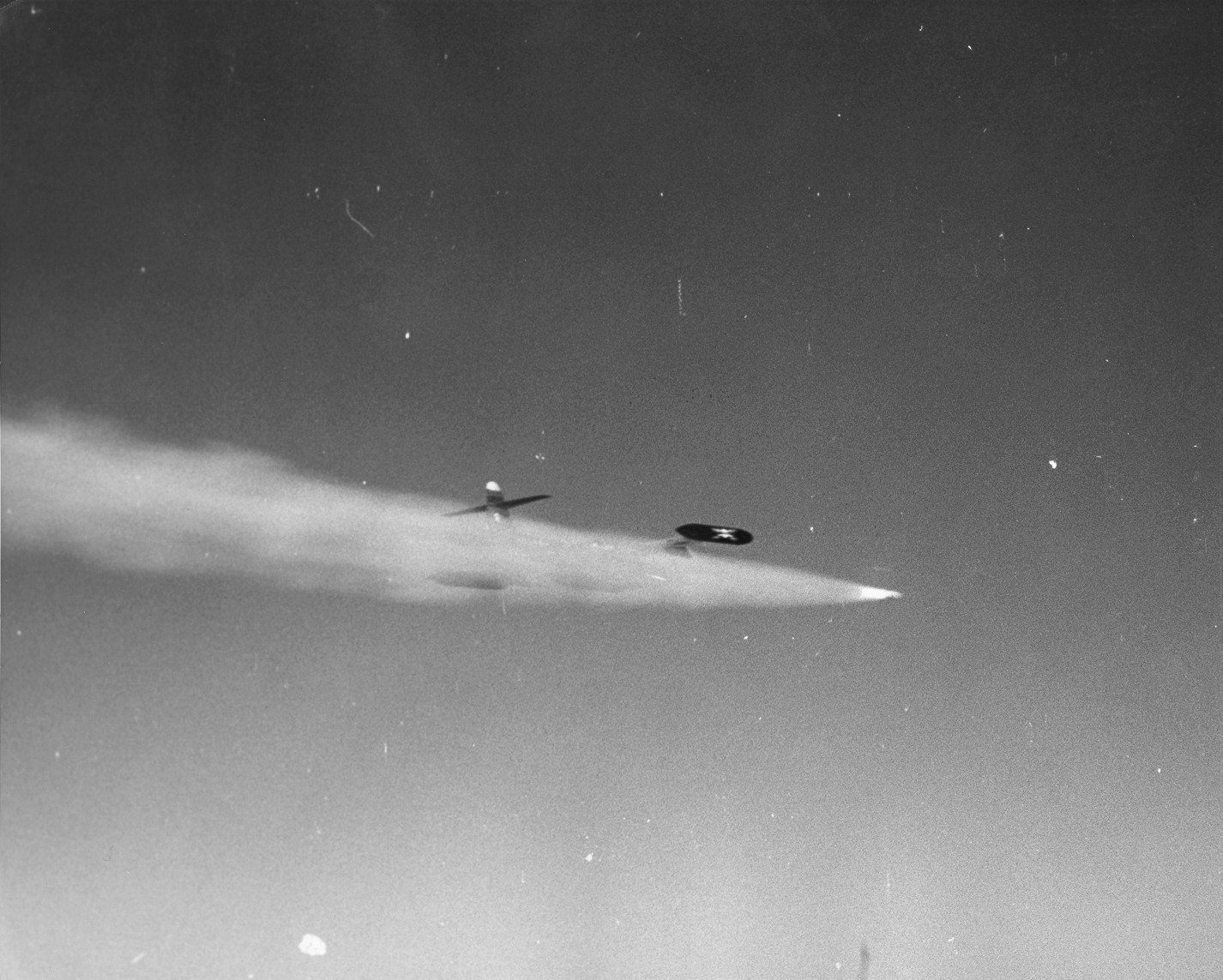 Operation Plumbbob - John test. LAS VEGAS, NV. Test of a AIR-2A Genie nuclear air-to-air rocket. The live nuclear rocket accelerates past the launching Scorpion at an undisclosed speed. The rocket project was begun in early 1954 and code-named “Genie” by the Air Research and Development Command.